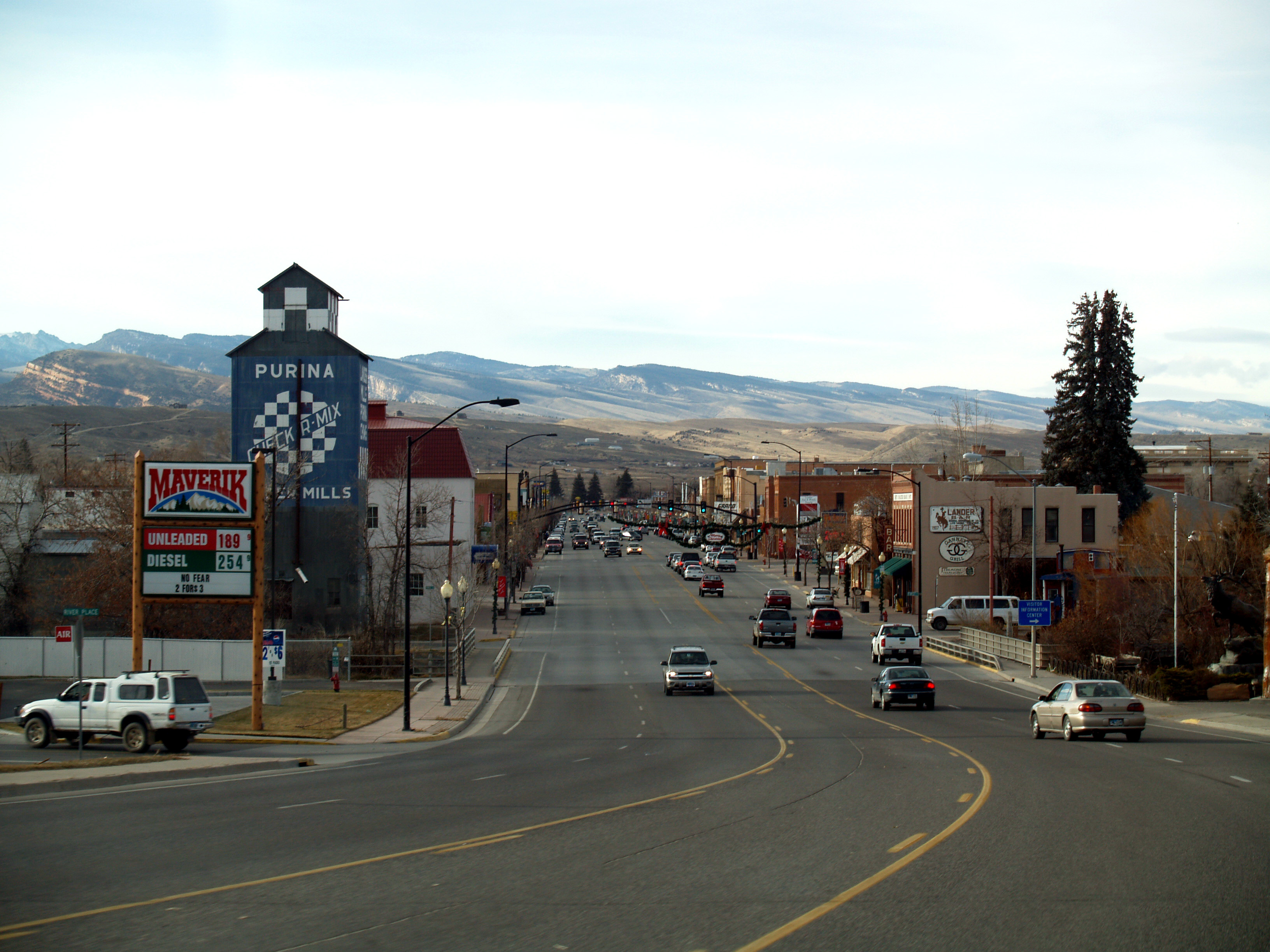 Dwntown Lander, WY